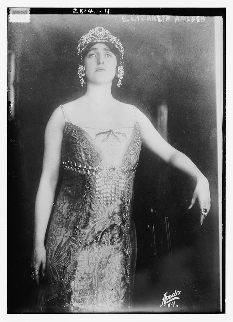 Bain News Service,, publisher. Elizabeth Amsden [between ca. 1910 and ca. 1915] 1 negative : glass ; 5 x 7 in. or smaller. Notes: Title from unverified data provided by the Bain News Service on the negatives or caption cards. Forms part of: George Grantham Bain Collection (Library of Congress). Format: Glass negatives. Repository: Library of Congress, Prints and Photographs Division, Washington, D.C. 20540 USA, General information about the Bain Collection is available at Persistent URL: Call Number: LC-B2- 2814-4